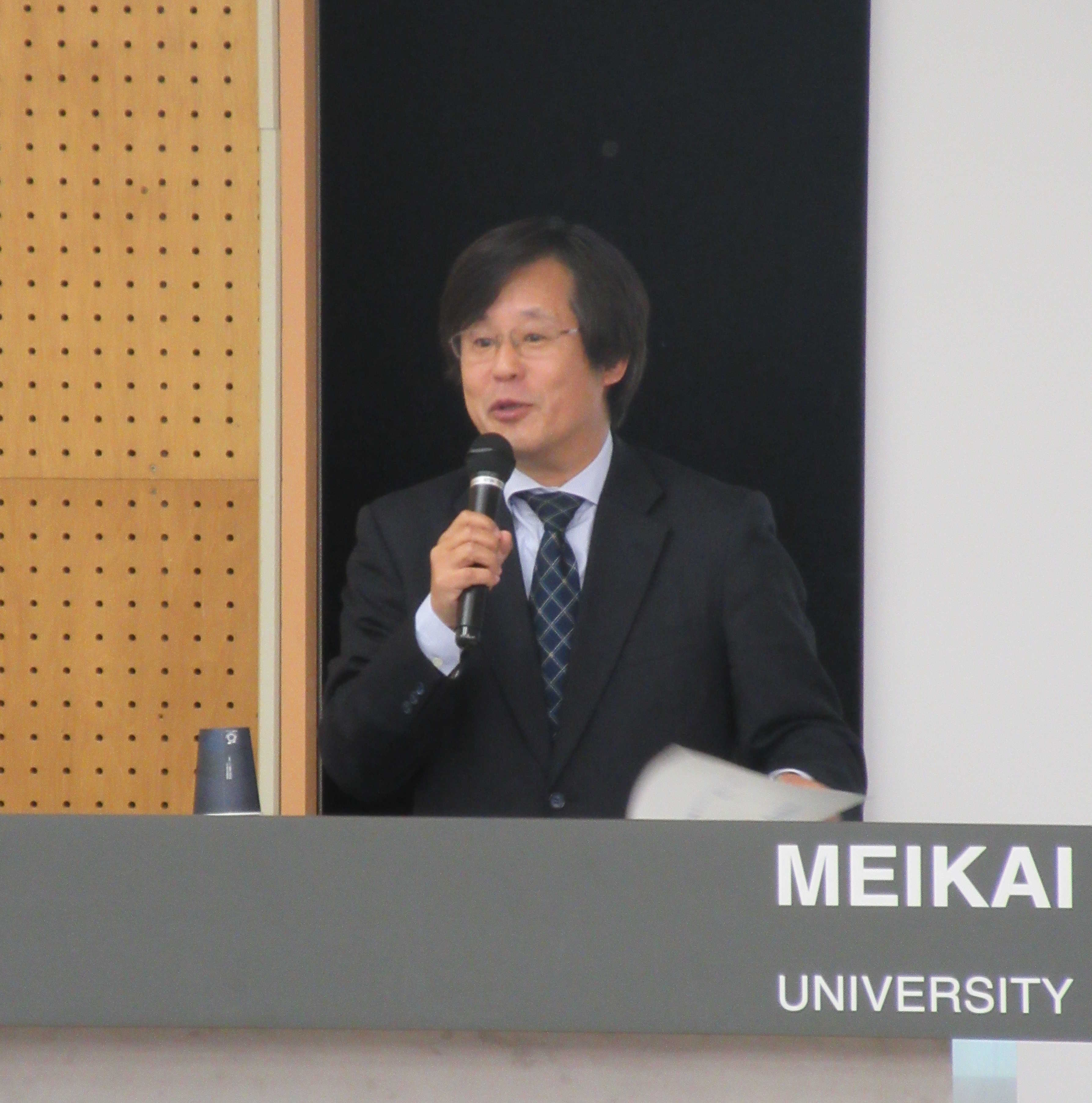 Mr. Yasuo Harada, a Japanese government official. The photo was taken at a symposium "Olympic and Real Estate" at the 31st Annual Meeting of the Japan Association for Real Estate Sciences (JARES) held in Meikai University, Urayasu, Chiba, Japan. I have been permitted to publish this photo from the organizer, the secretary of JARES.